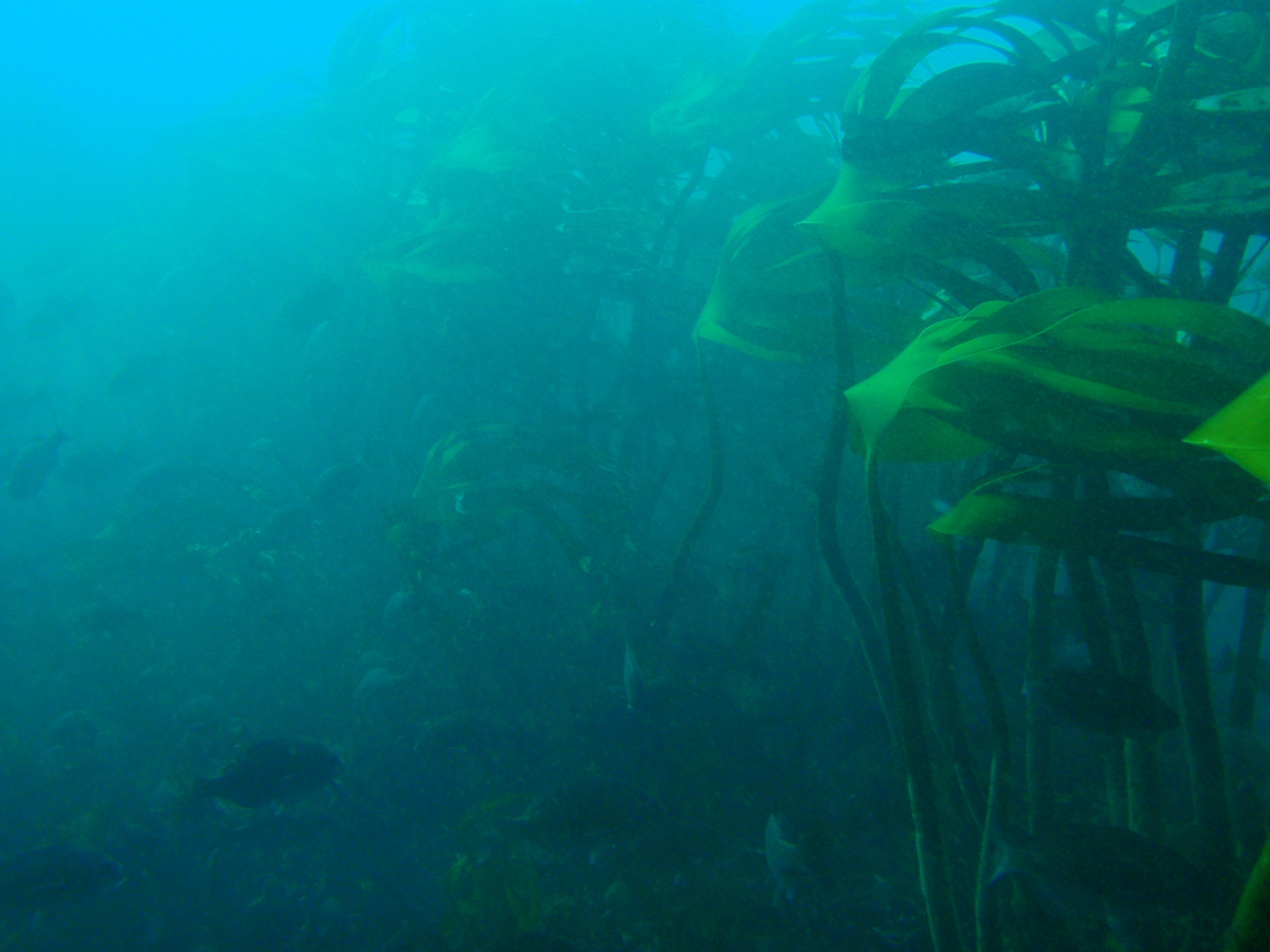 Kelp forest on top of the pinnacle at 13th Apostle reef, Cape Peninsula.